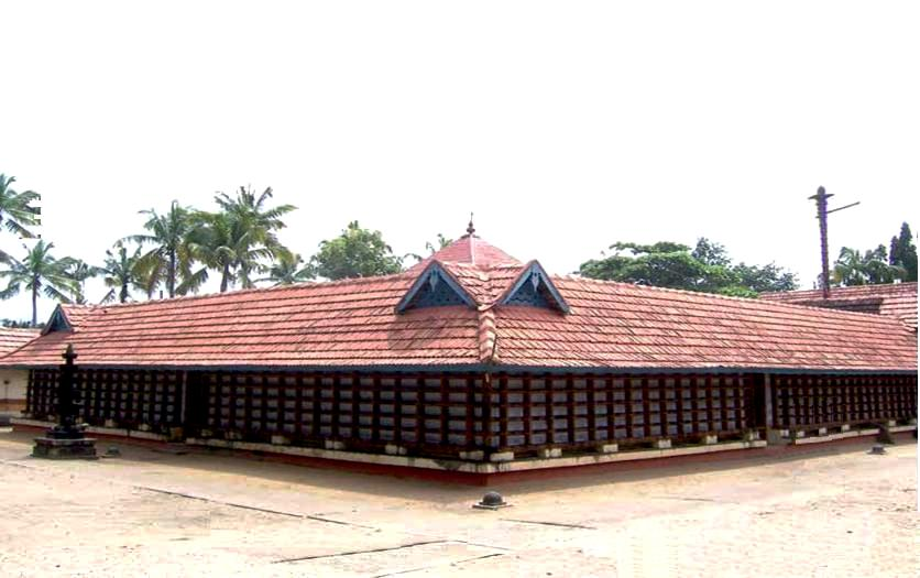 Pattanakad Siva Temple